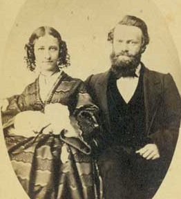 Bushrod Washington Lott with his wife Cornelia Friend Lott.